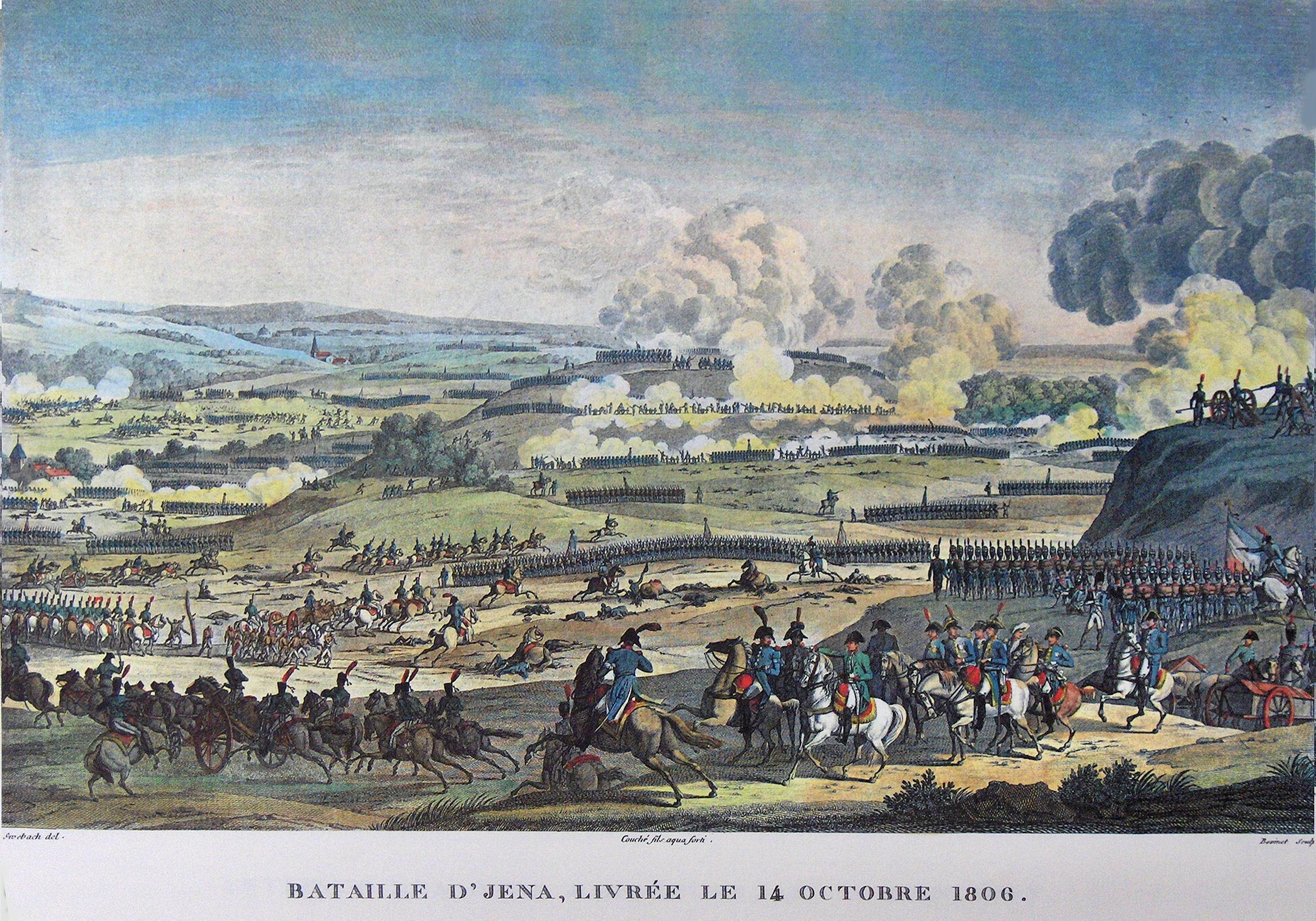 "Battle of Jena " colored litho by Antoine Charles Horace Vernet (called Carle Vernet)(1758 - 1836) and Jacques François Swebach (1769-1823)